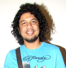 Papon at the launch of the song Chu Liya from the Hindi film Hai Apna Dil Toh Awara